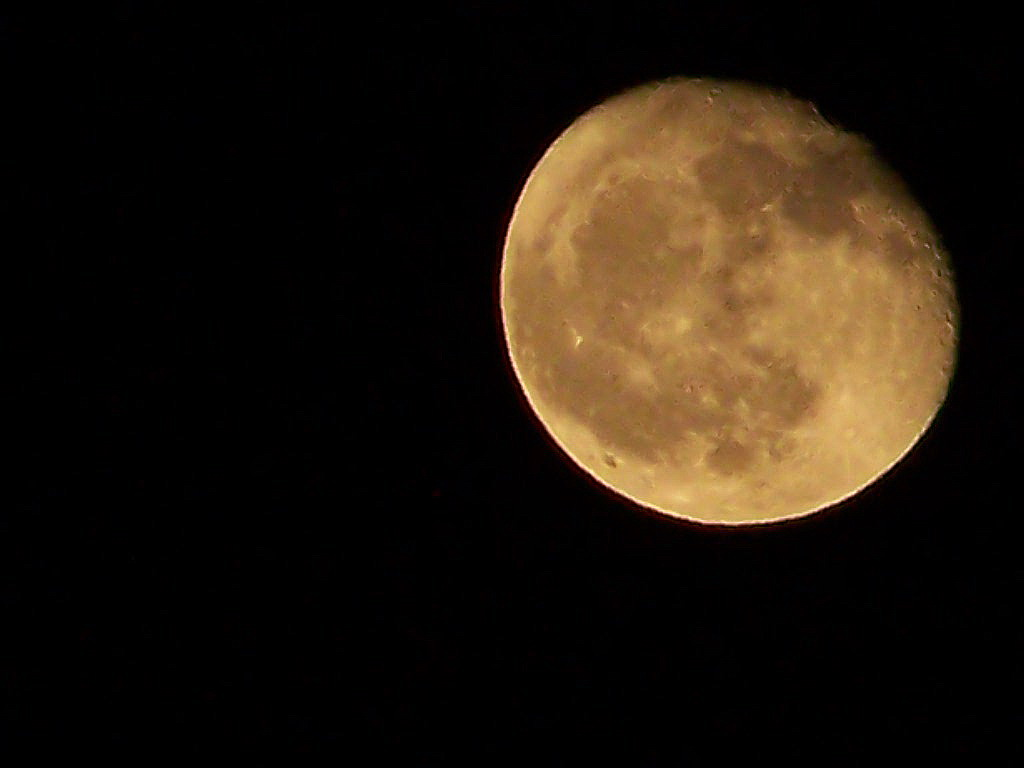 Full moon Full moon is a lunar phase that occurs when the moon is on the opposite side of the earth from the sun, and when the three celestial bodies are aligned as closely as possible to a straight line. At this time, as seen by viewers on earth, the hemisphere of the moon that is facing the earth (the near side) is fully illuminated by the sun and appears round. Only during a full moon is the opposite hemisphere of the moon, which is not visible from earth (the far side), completely unilluminated. Also this occurs when the sun fully illuminates the surface of the moon facing the earth. (An eclipse of the moon occurs when the shadow of the earth. As a lunar month is about 29.531 days long, the full moon falls on either the 14th or 15th of the lunar month in those calendars which start the month on the new moon. In any event, the period between full moons can be either 29 or 30 days.